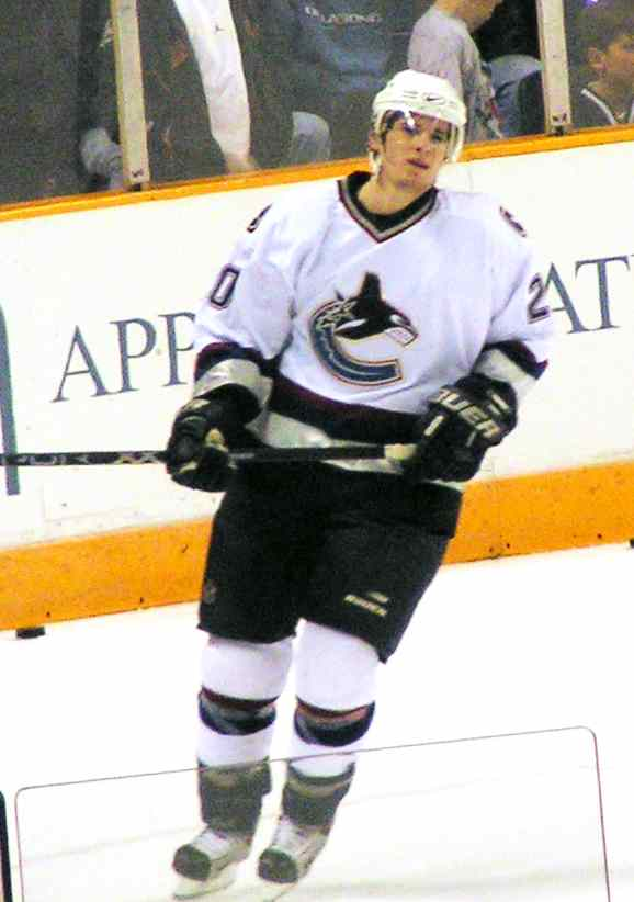 Ryan Kesler while warmup 2004 in San Jose